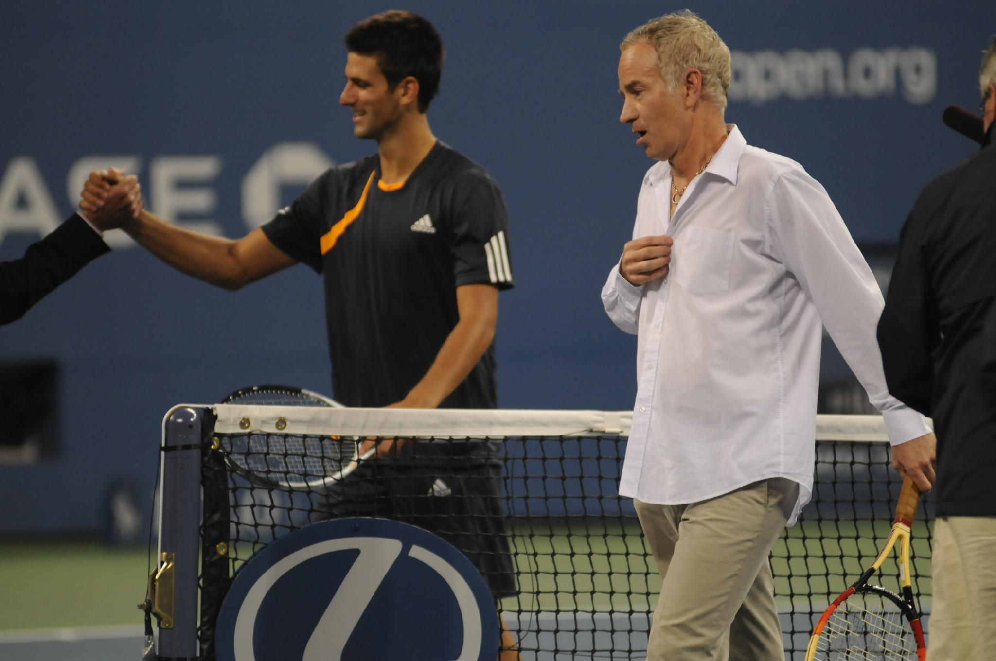 Novak Đoković and John McEnroe at the 2009 US Open